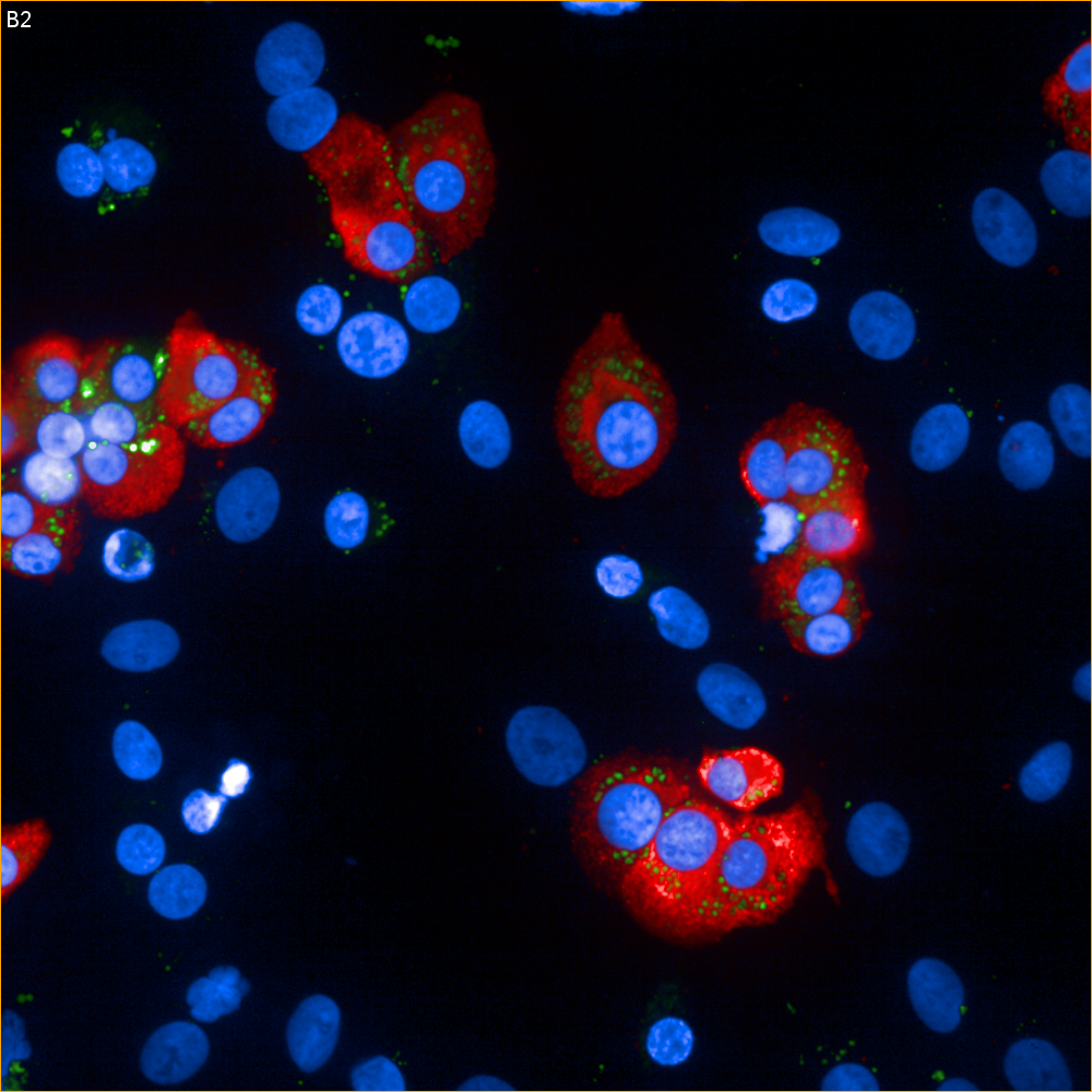 Human beta cells and insulin granules